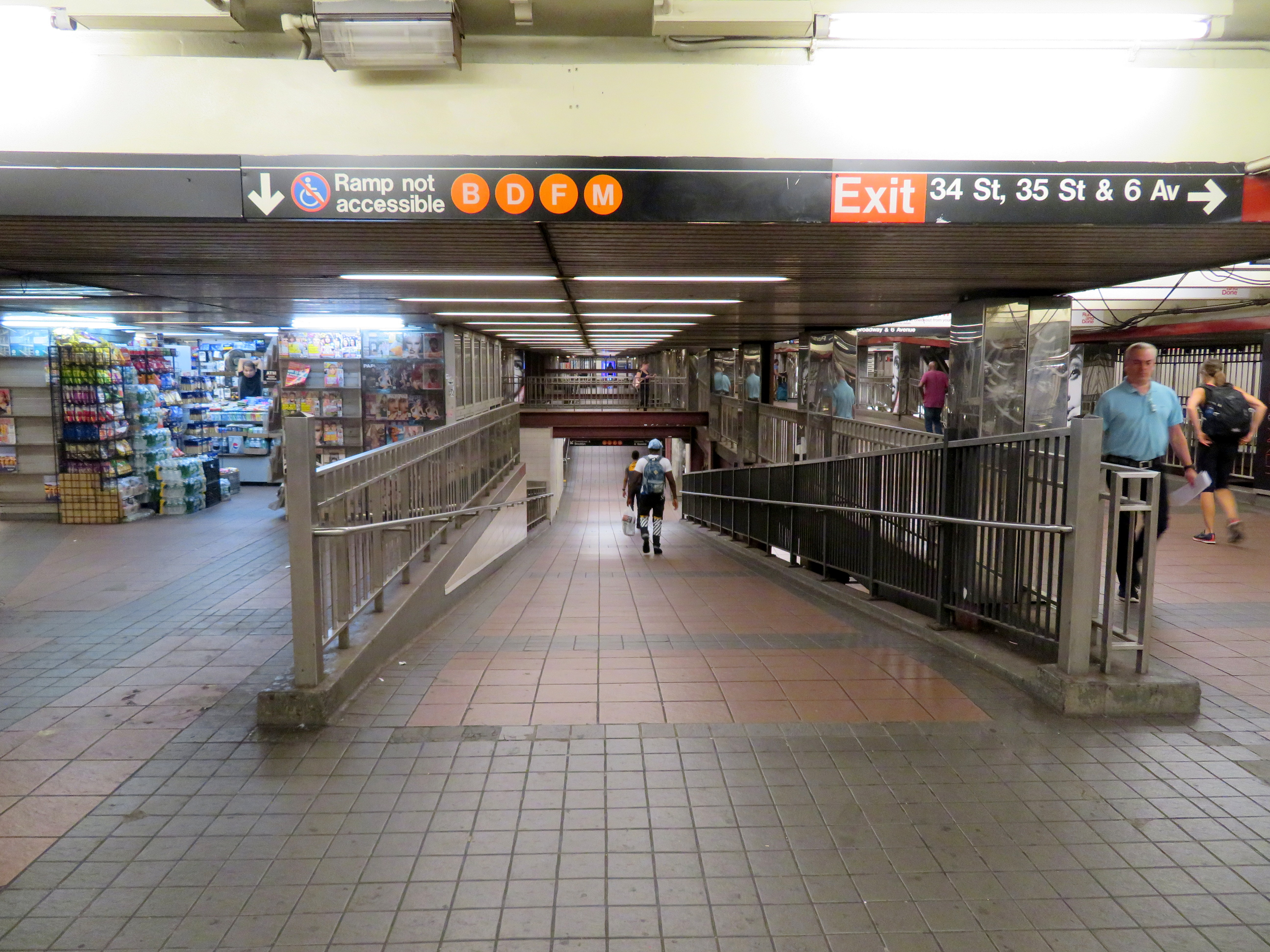 Ramp to the Sixth Avenue Line platforms at 34th Street-Herald Square station in September 2018